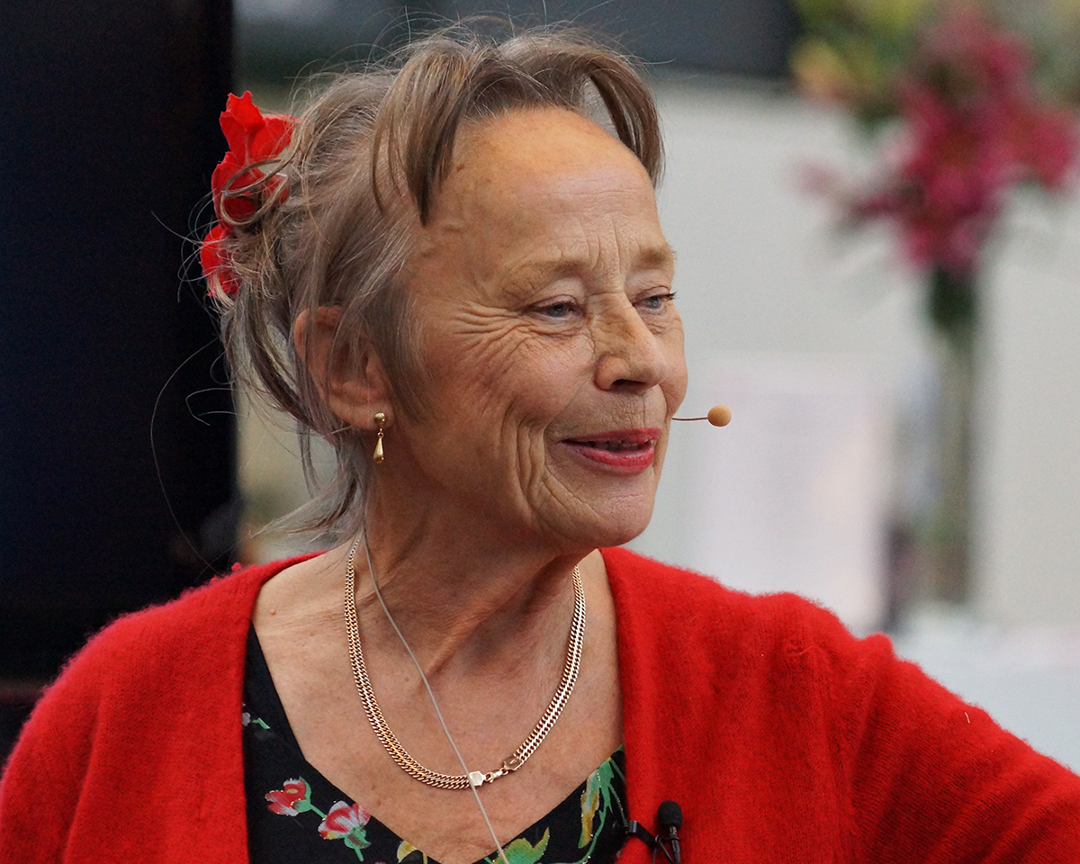 Gretelise Holm - Danish journalist and writer at the Copenhagen Book Fair "BogForum 2012", Copenhagen, Denmark